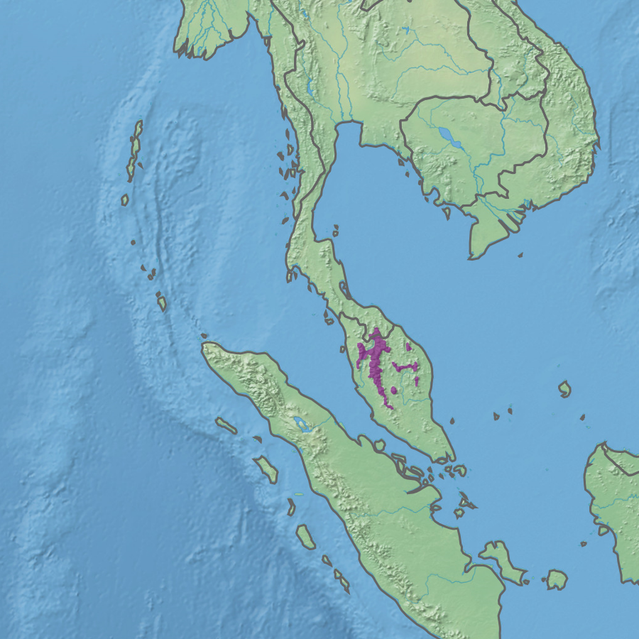 Ecoregion IM0144 - Peninsular Malaysian montane rain forests (in purple)